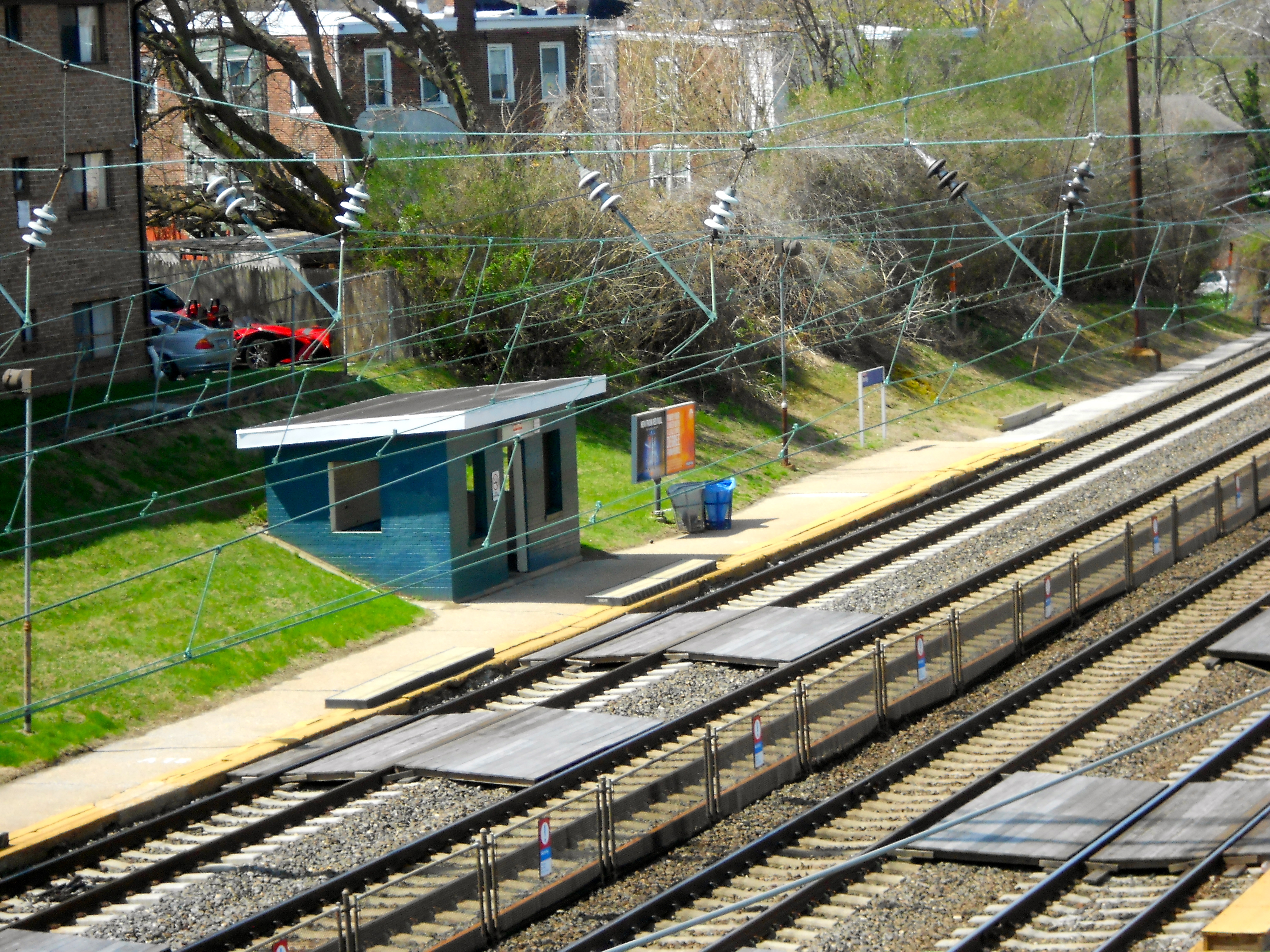 Small station in Darby, Pennsylvania on SEPTA's Wilmington/Newark Line